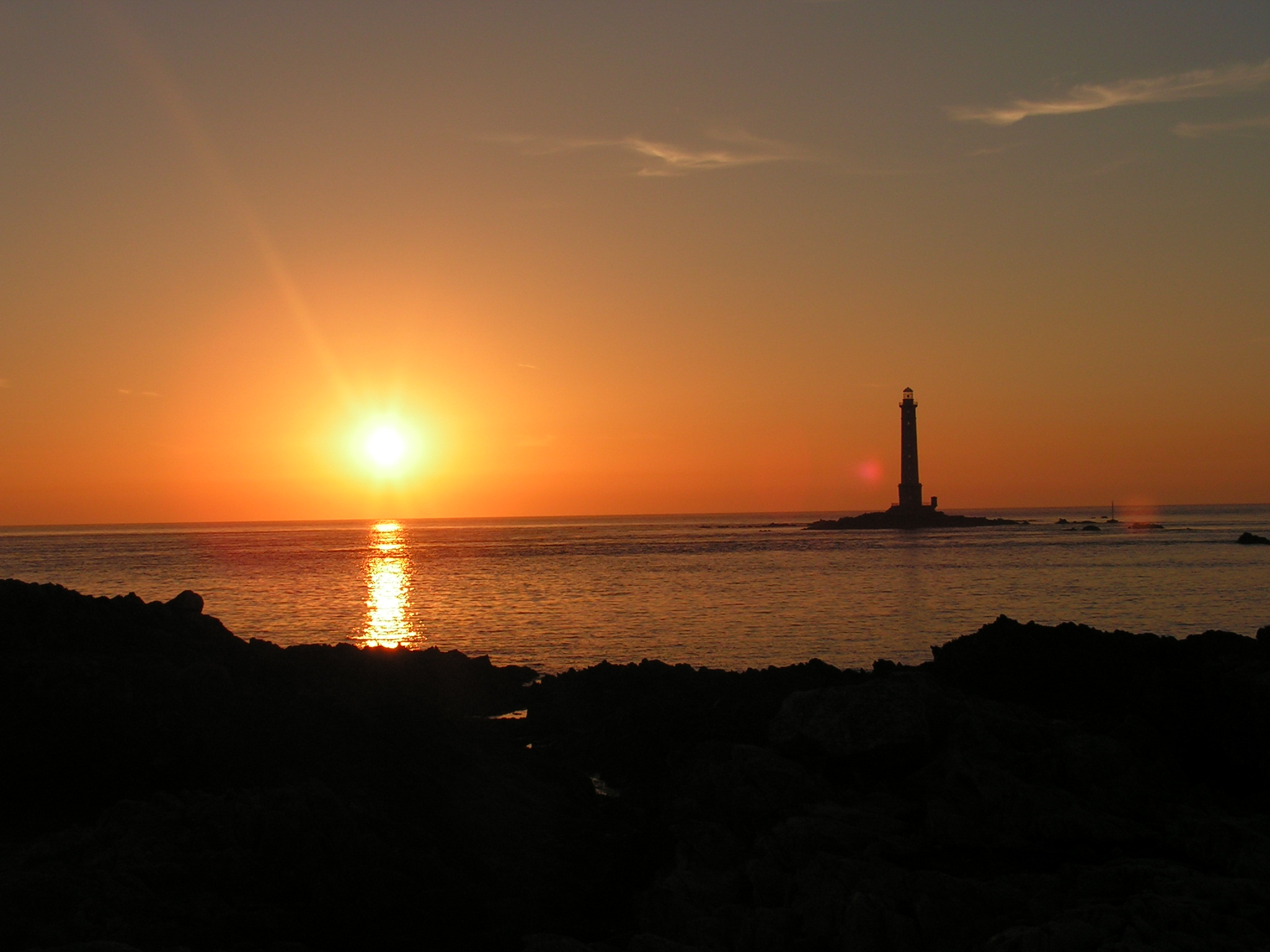 Lighthouse of La Hague at sunset (in Normandie, France).